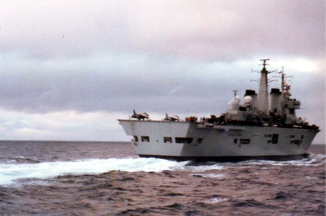 HMS Invincible in the Total Exclusion Zone 1982. Although the pictures were taken with a zoom lens and are of poor quality, the starboard side seen here is undamaged.